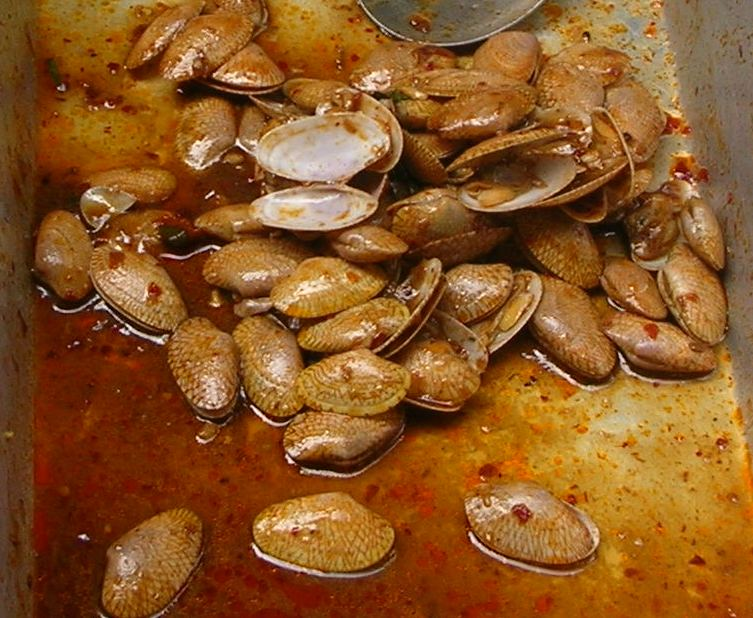 Hoi Lai Pad Phrik Pao, Clams (หอยลาย) sauteed with sweet chili paste and basil leaves